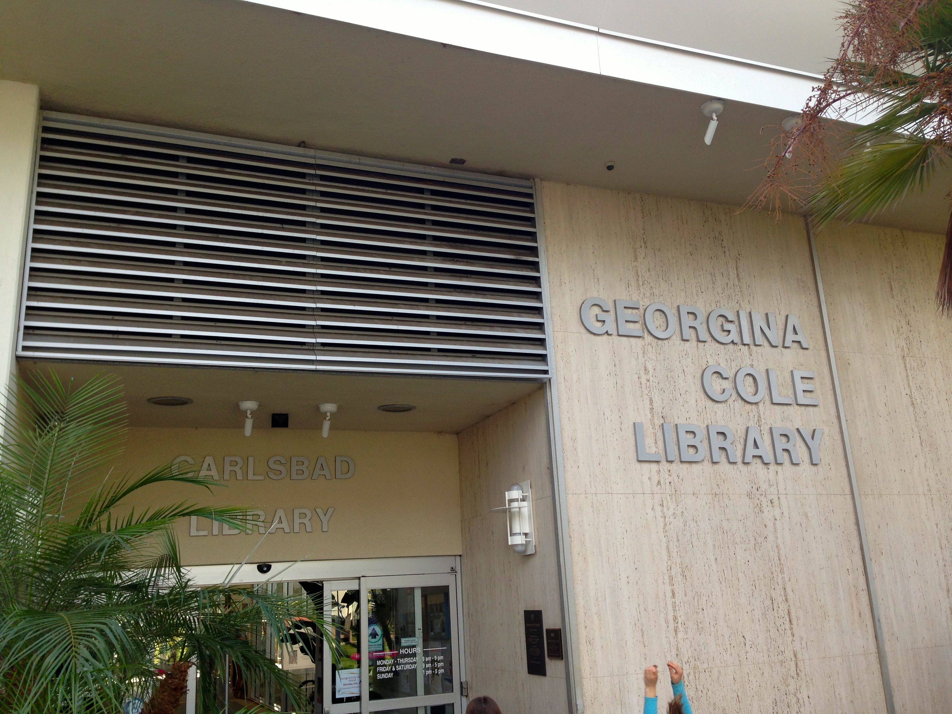 The Georgina Cole Library, located in Carlsbad, California, originally opened in November 1967, and reopened on April 15, 2000, after a half-year restoration project. It is a full service library named after Georgina Cole, the city's first library director.[1] The Cole Library is a branch of the Carlsbad City Library.